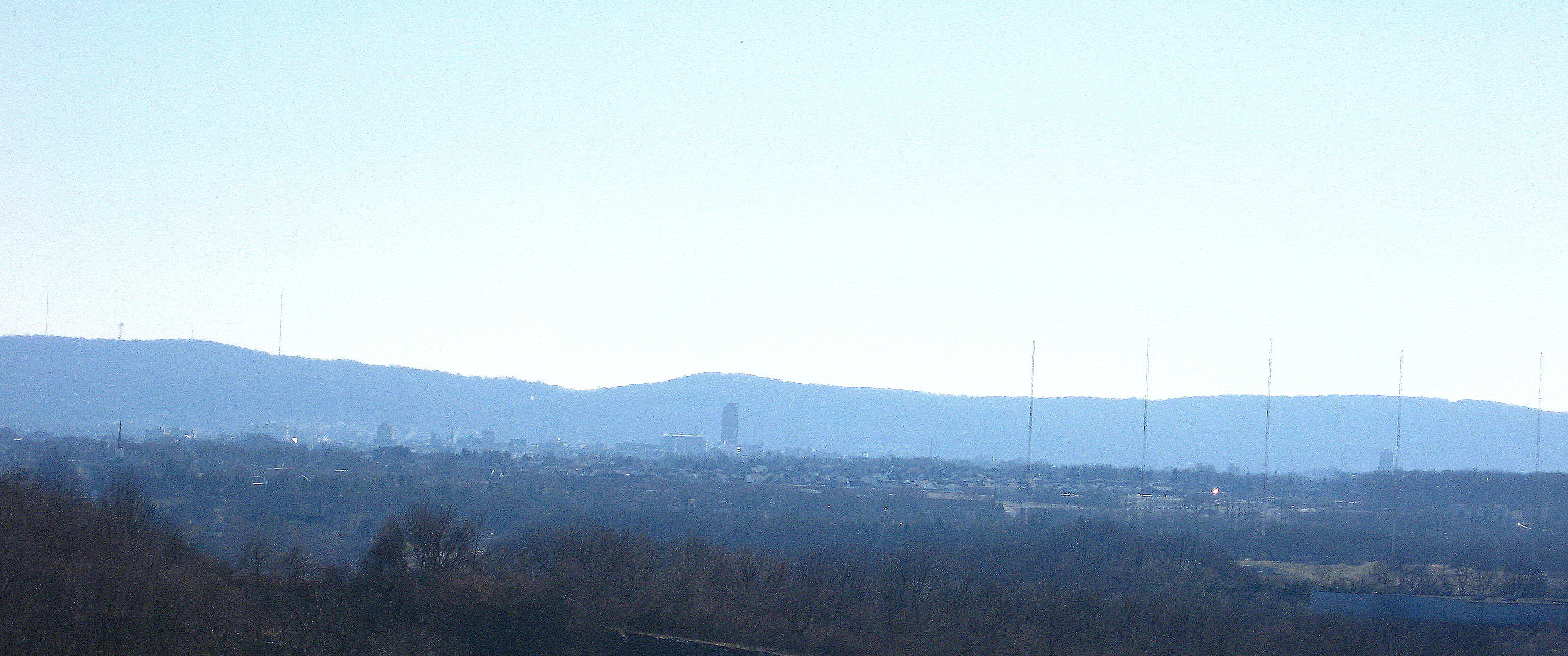 View of Allentown from Egypt from the north